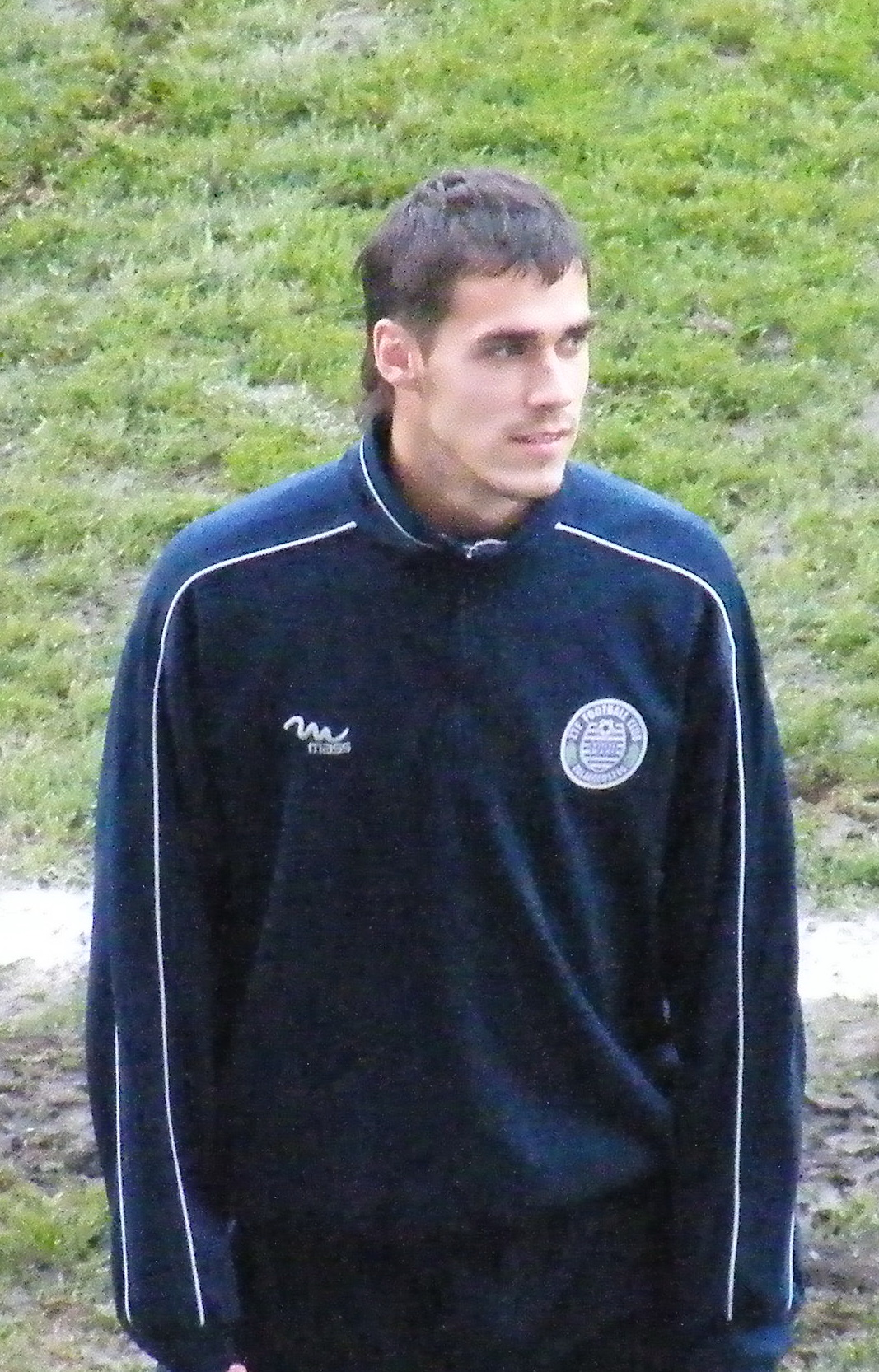 Krisztián Pogacsics Hungarian association football player.